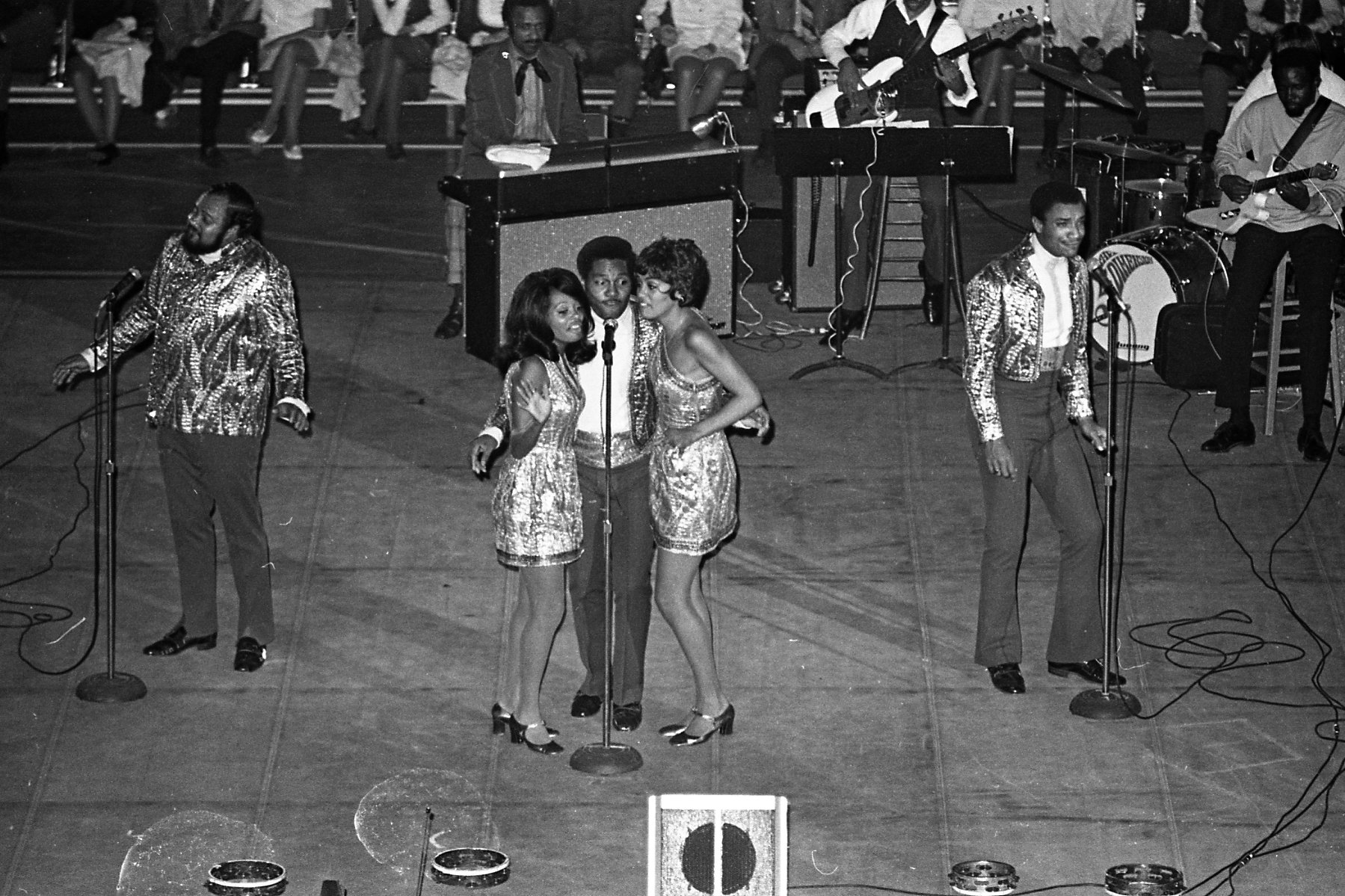 The 5th Dimension in concert at Eastern Michigan University. Left to right: Roy Townson, Florence LaRue, Billy Davis Jr., Marilyn McCoo, and Lamonte McLemore.